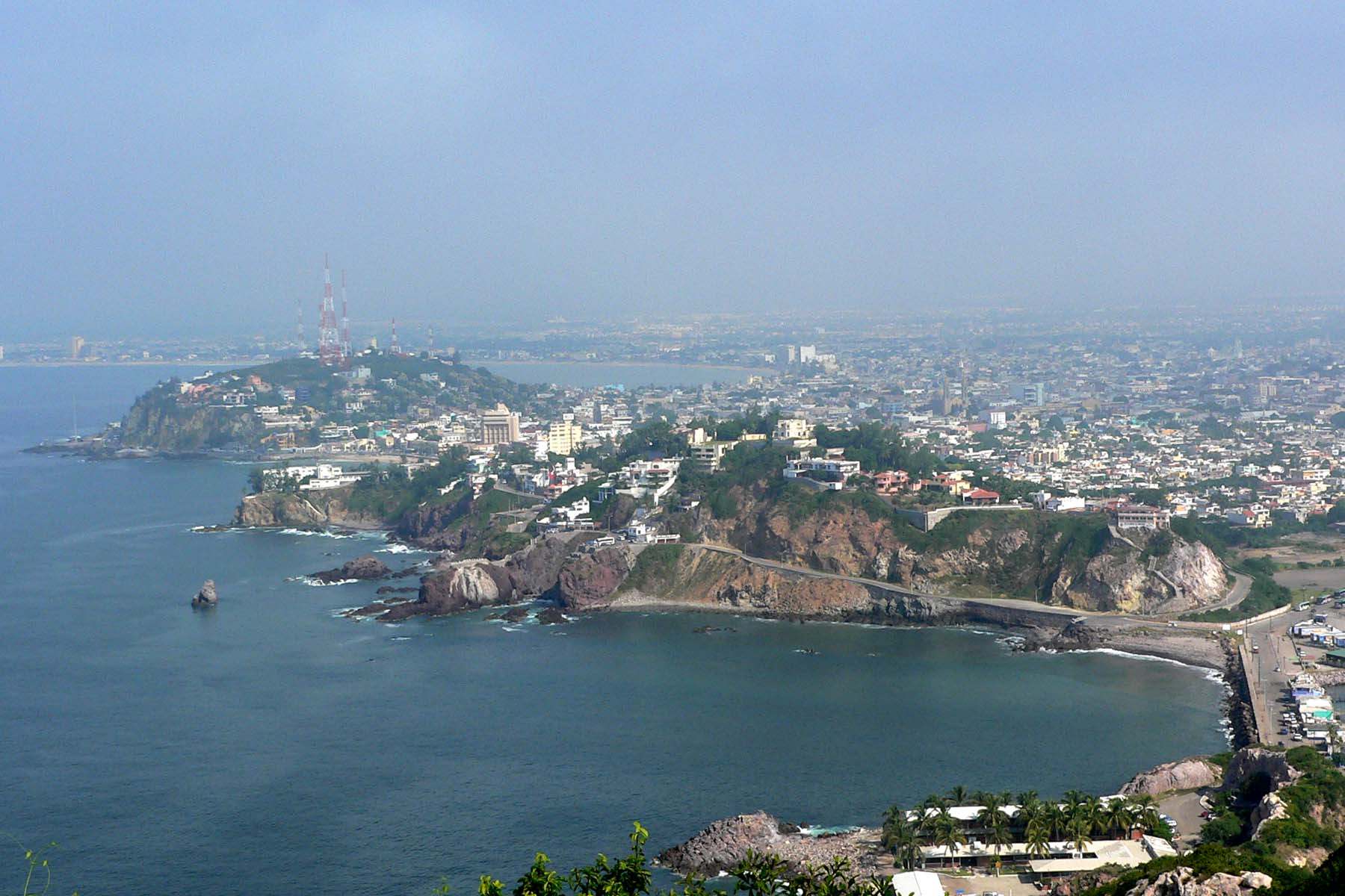 Photo of Mazatlan shoreline